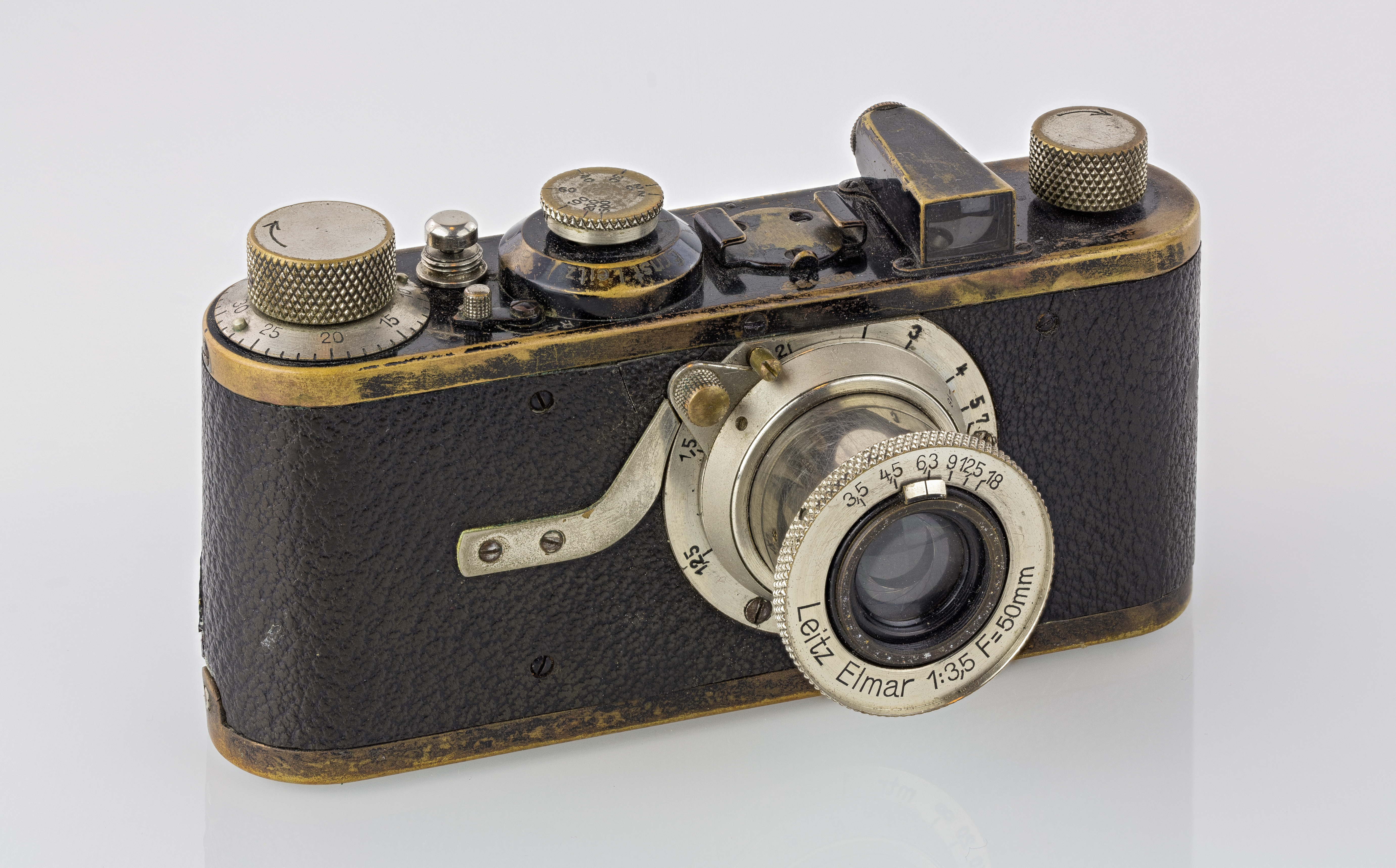 Leica Mod. Ia (1927), production number 5193, production time 1925-1936, Leitz Elmar F=50mm, 1:3.5